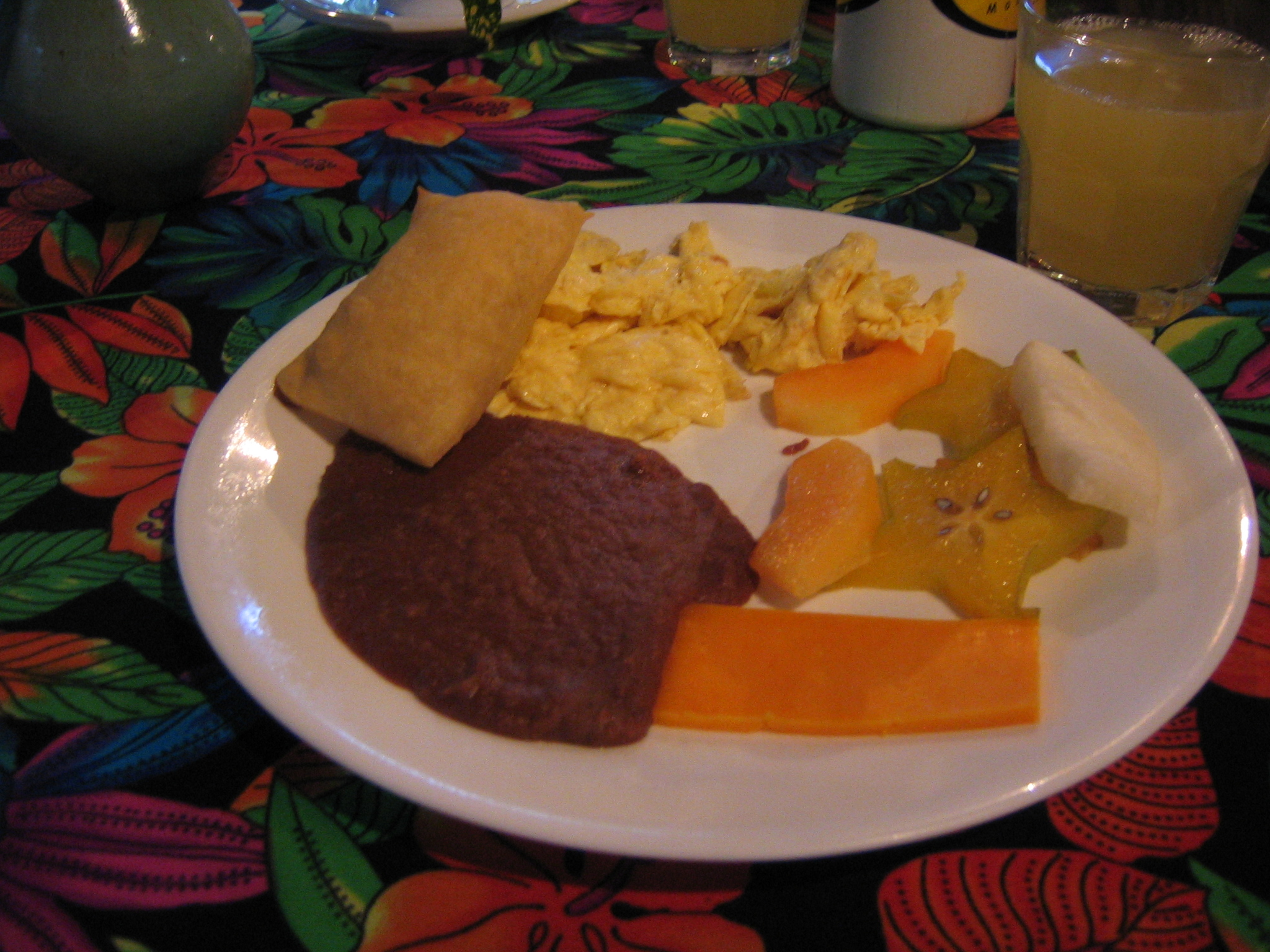 Belizean food